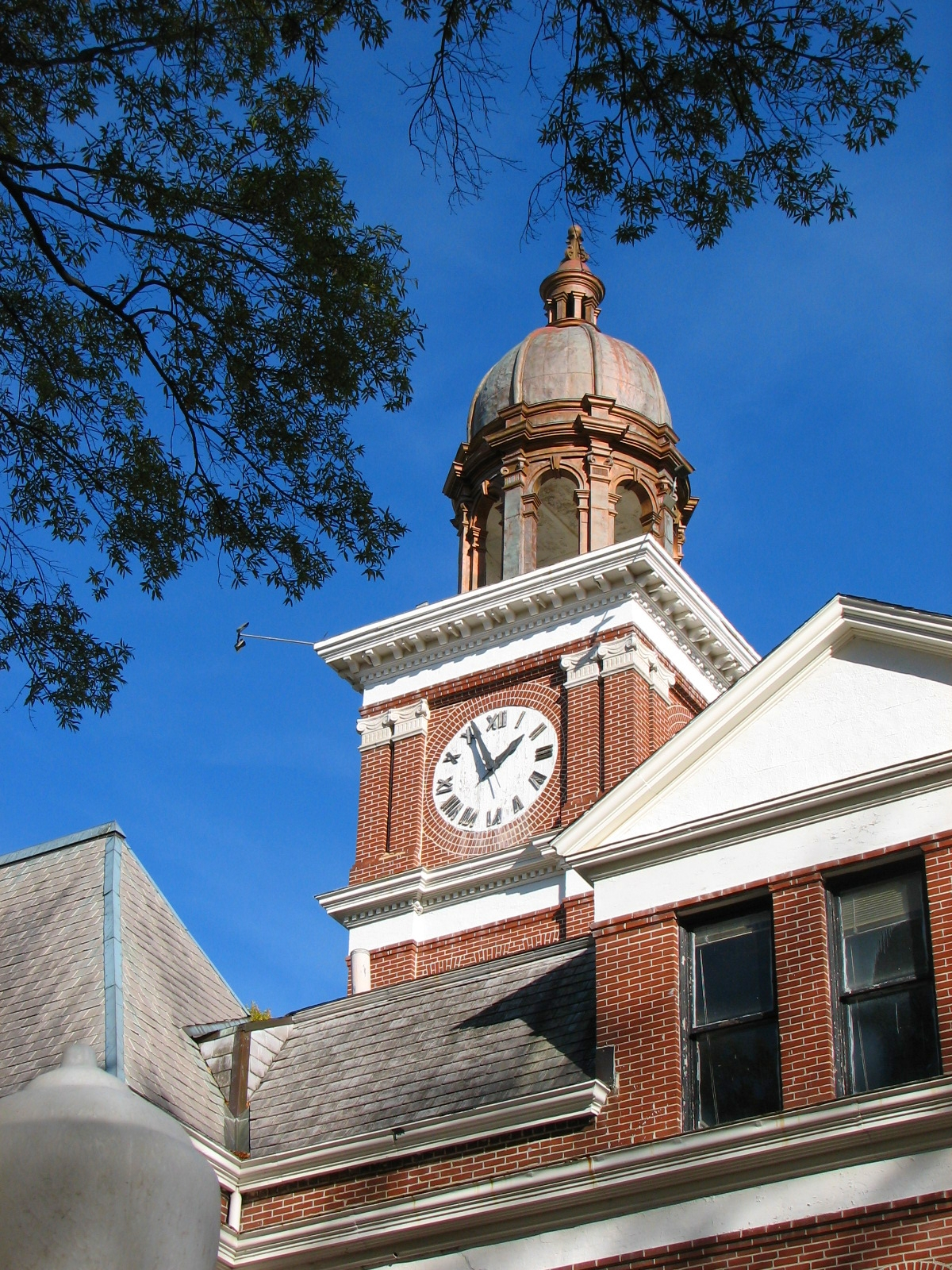 Henry County Tennessee Courthouse Clocktower, Paris, Tennessee